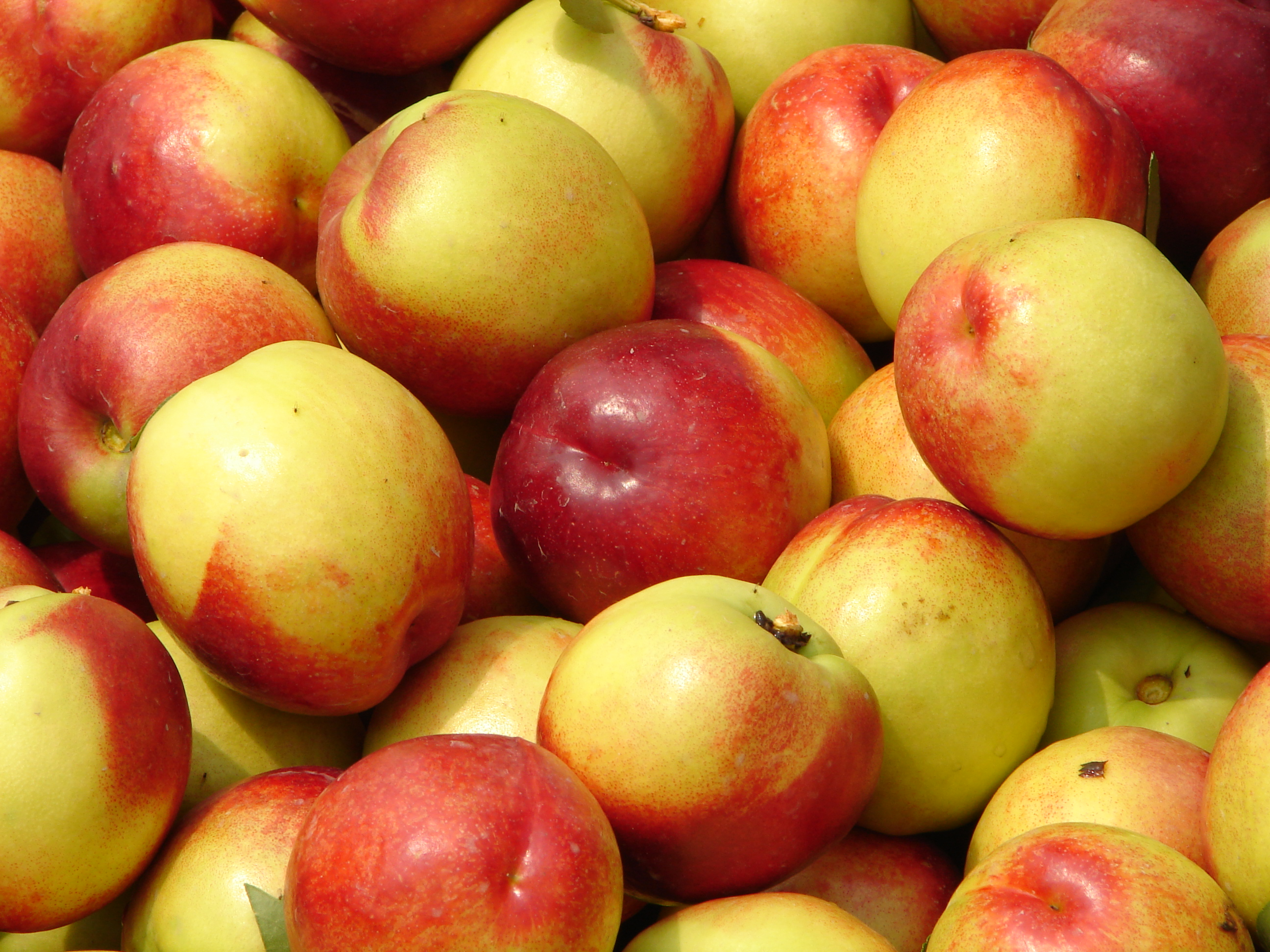 Nectarines; fruits of Prunus persica.